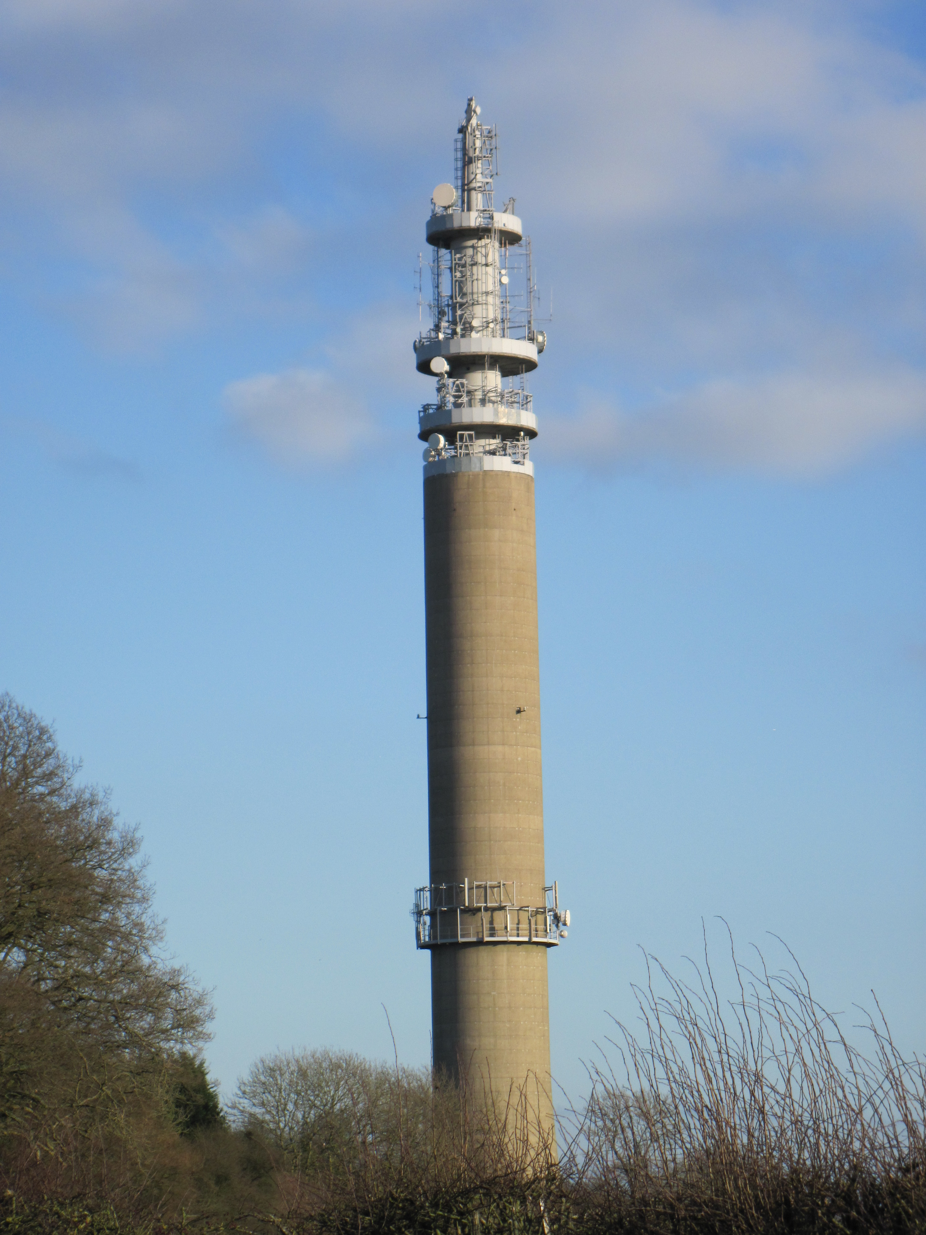 British Telecom tower at Stokenchurch, Buckinghamshire